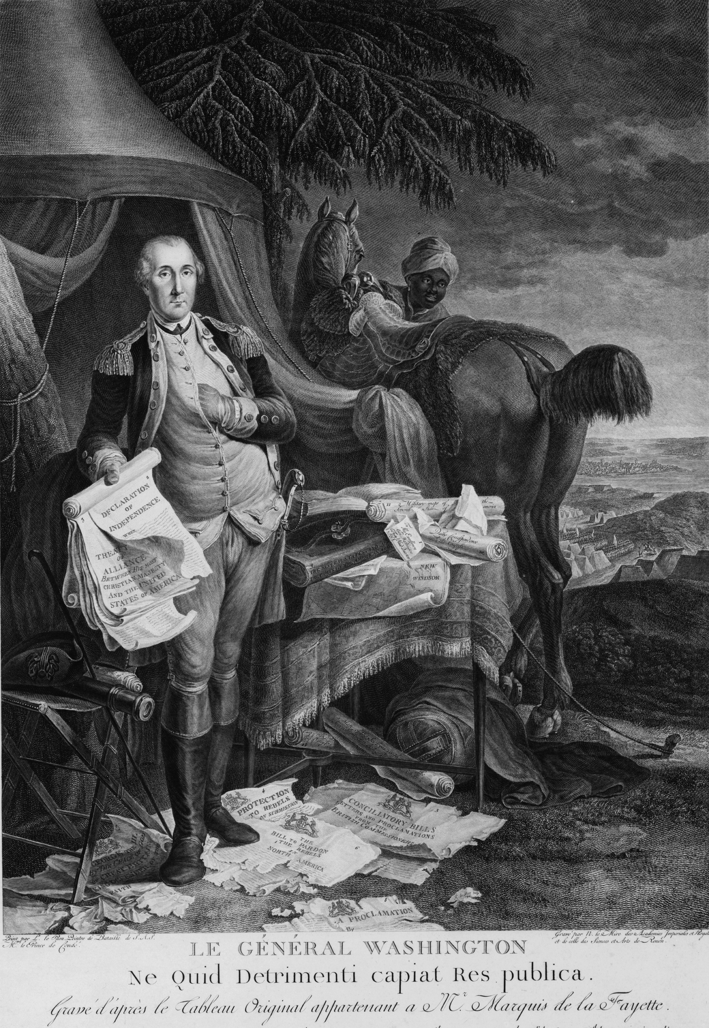 George Washington holding the Declaration of Independence and the Treaty of Alliance with France. 1780 French engraving by Noël Le Mire.